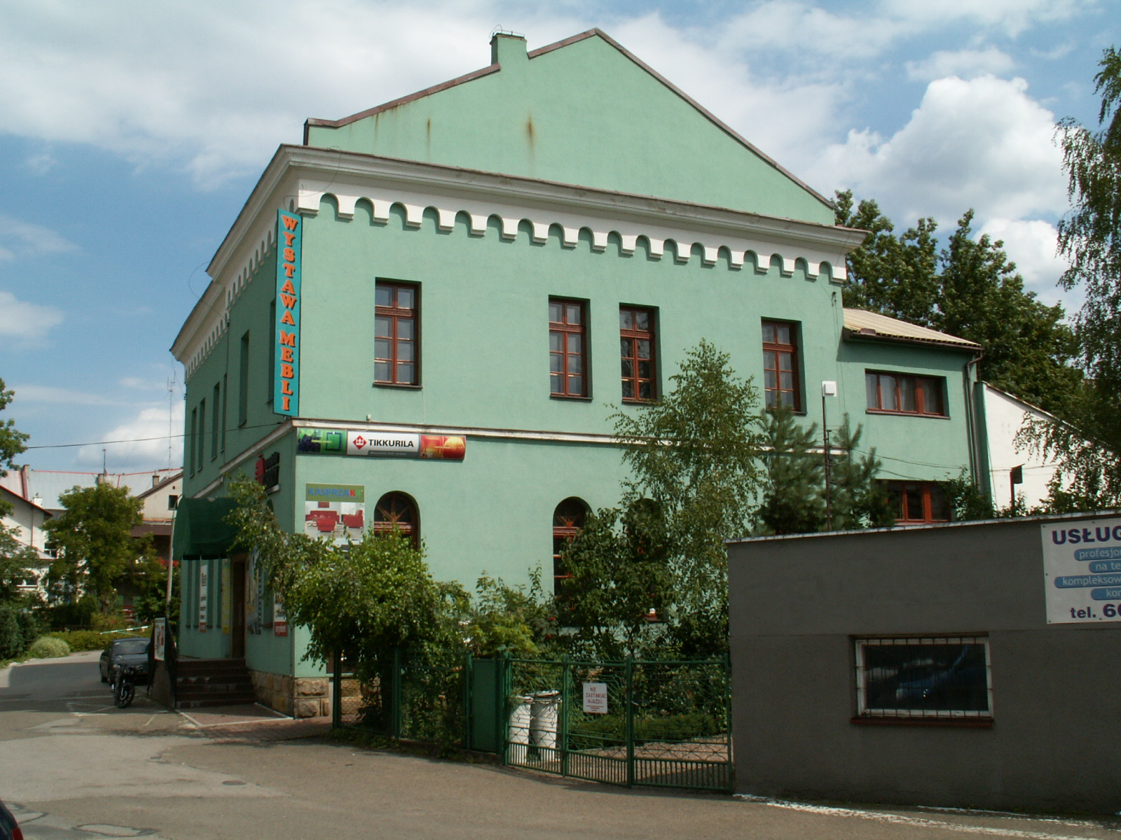 Synagogue in Kalwaria Zebrzydowska